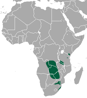 Greater Dwarf Shrew (Suncus lixus) range